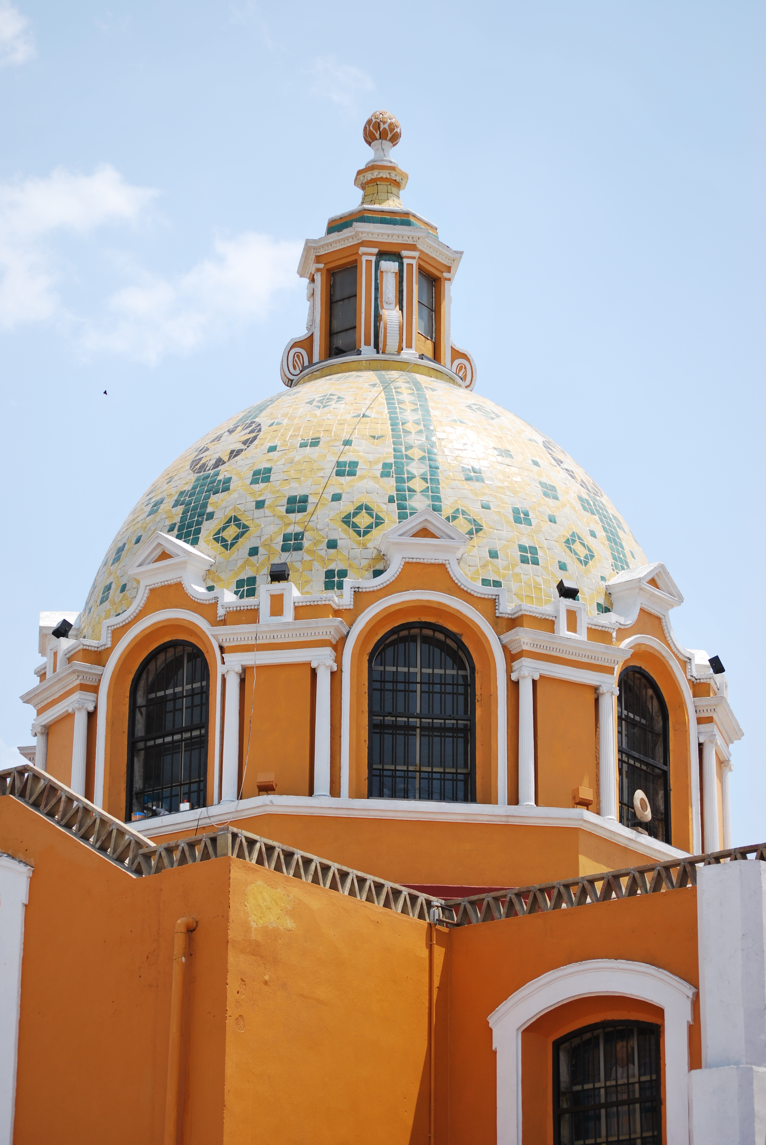 Dome of Nuestra señora de los remedios, the church at the top of the pyramid of Cholula (Cholula - Puebla - Mexico)